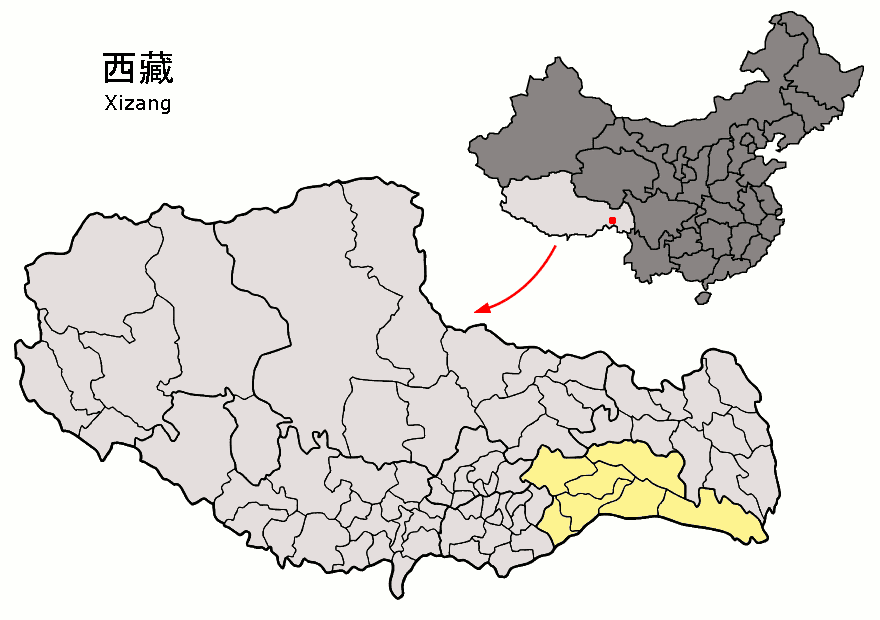 Location of Nyingchi Prefecture (yellow) within Tibet (Xizang) autonomous region of China